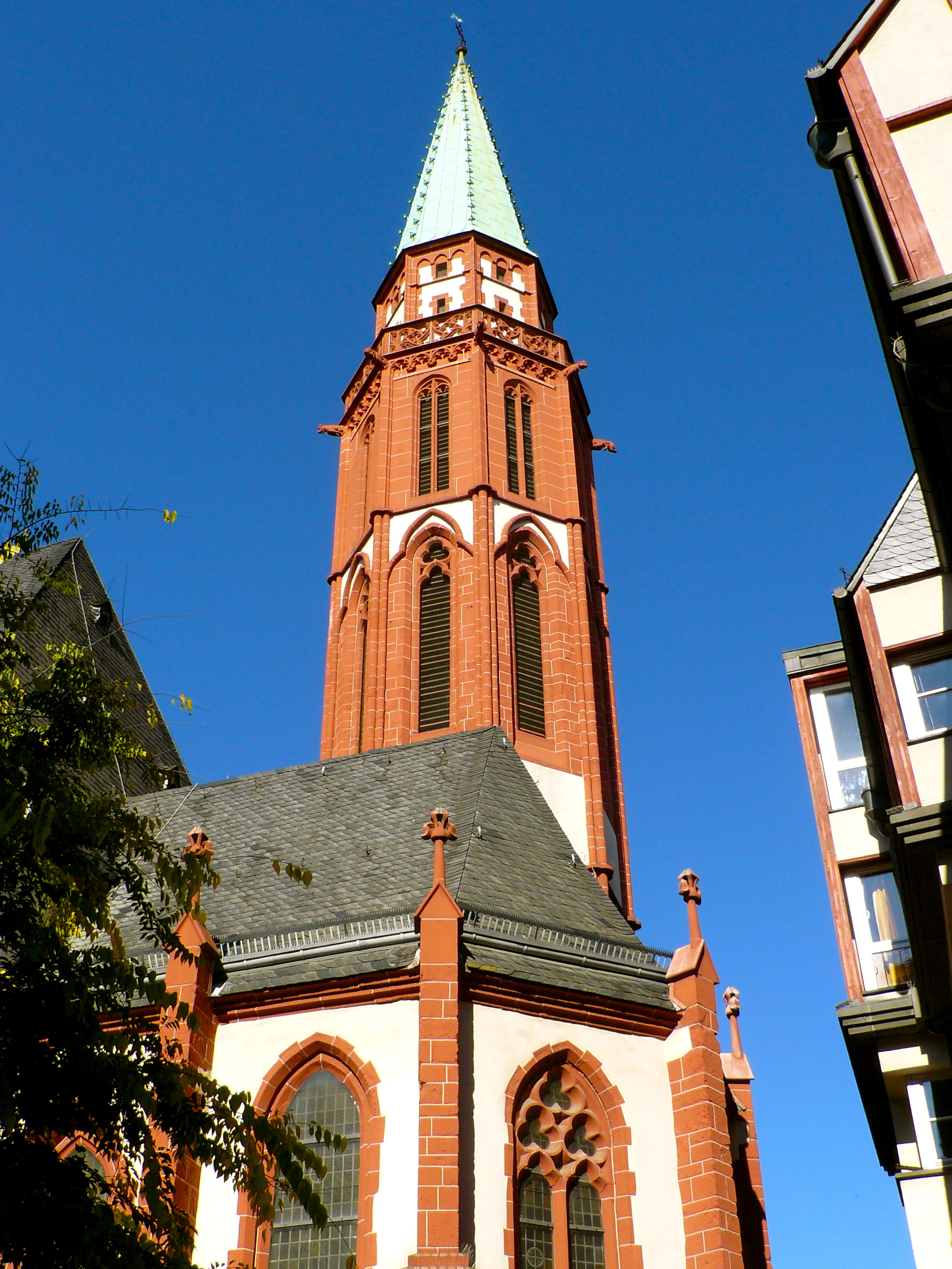 Old St. Nikolai church near city hall Römer in Frankfurt, Hesse, Germany